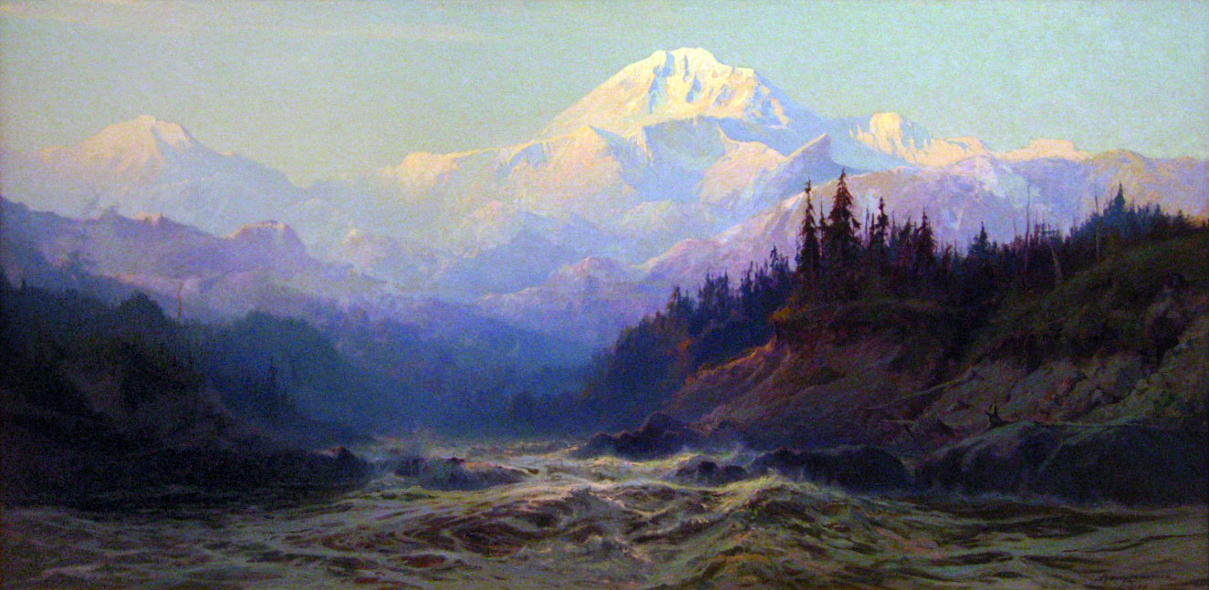 Painting of Mt. McKinley by Sydney Laurence. Anchorage Museum.